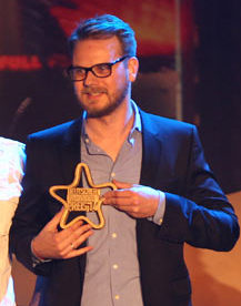 Fotos: C.Wolff/European Web Video Academy